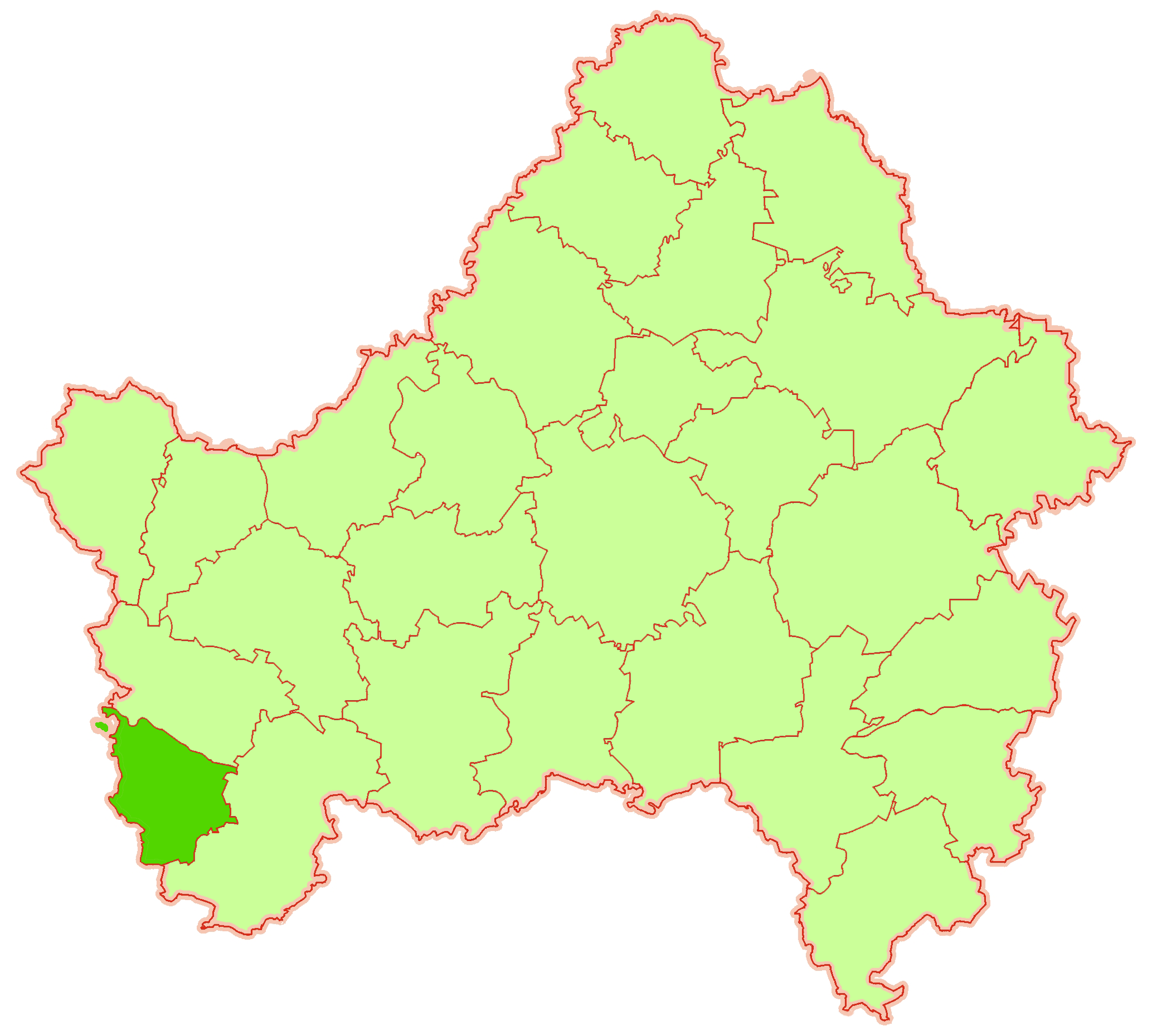 Zlynkovsky raion on the map of Bryansk oblast